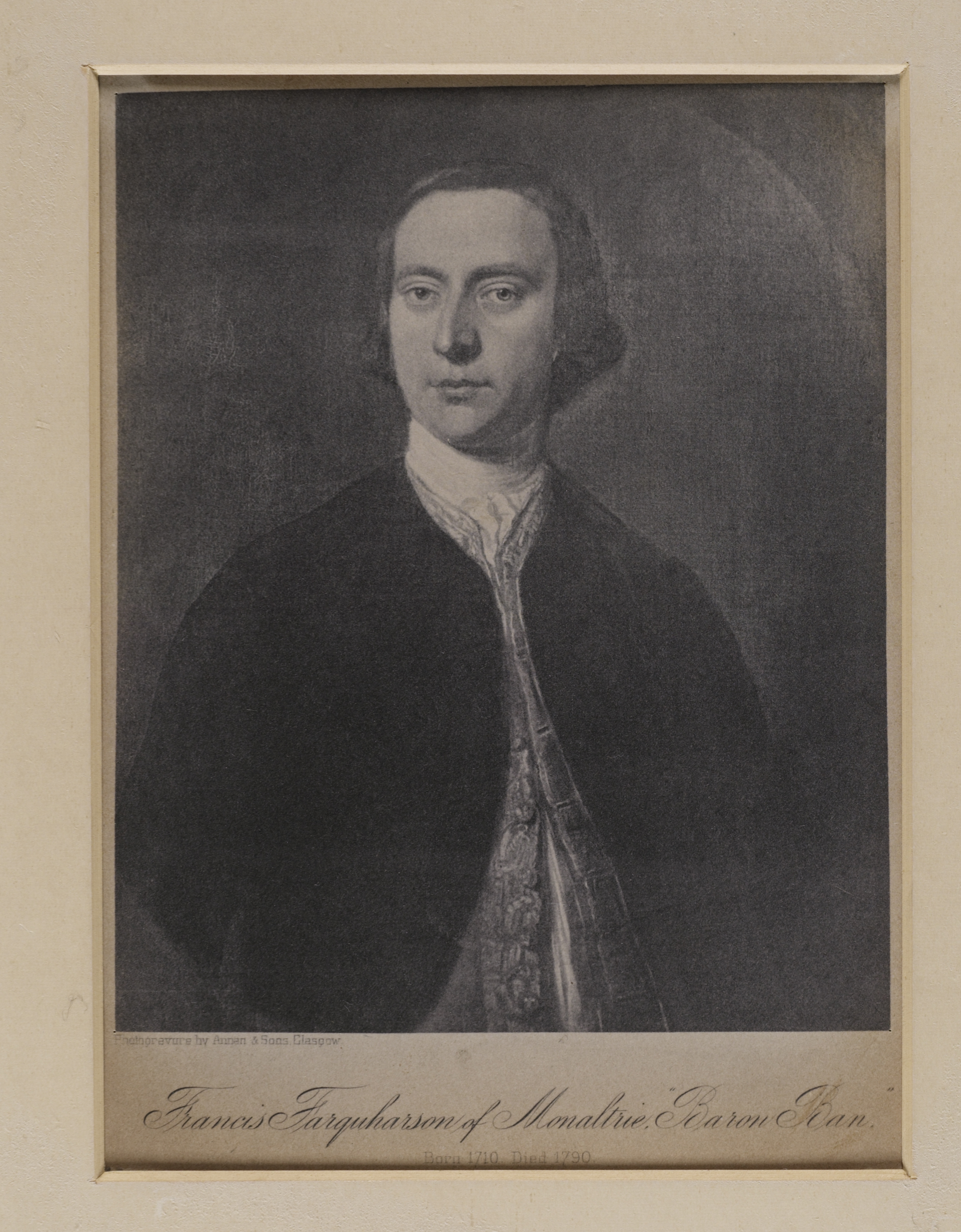 Portrait of Francis FARQUHARSON of Monaltrie (1710- 1790) Portrait of Francis Farquaharson with text at bottom of portrait "Photogravure by Annan and Sons, Glasgow." title and then below "Born 1710. Died 1790"